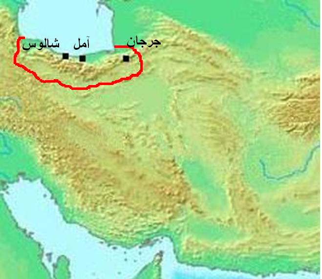 Approximate boundary of Tabaristan region, based upon that map and Mu'jam Al-Buldan of Yaqut al-Hamawi description for the region.